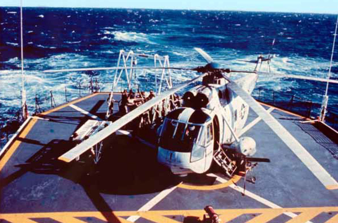 A 6593d Test Squadron (USAF) Sikorsky CH-3B helicopter on the deck of a recovery ship supporting the Corona Program./Photo credit: USAF